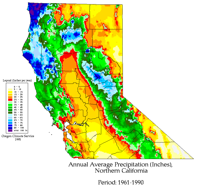 Average Annual Precipitation in Northern California.